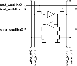 I am the author of this image.